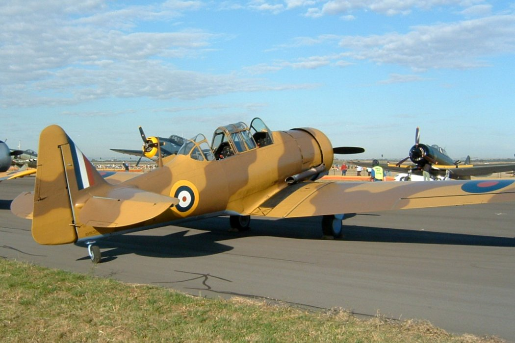 North American T-6 Texan in desert camouflage colour scheme.